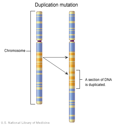 US National Library of Medicine